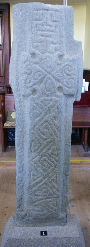 Kilmartin Sculptured Stones, Kilmartin Glen, Scotland - cross no 1 (in church)